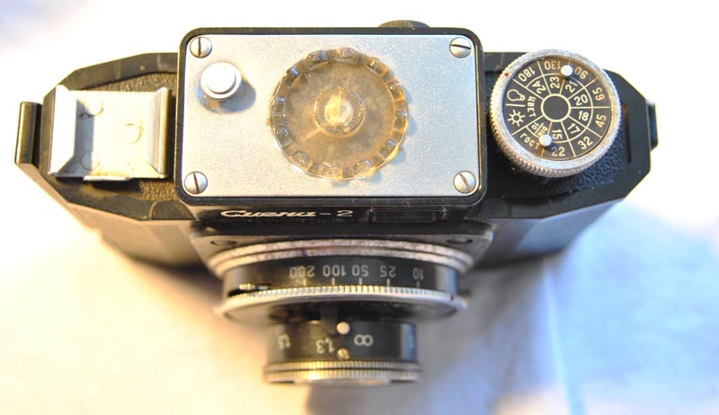 Smena-2 Soviet camera